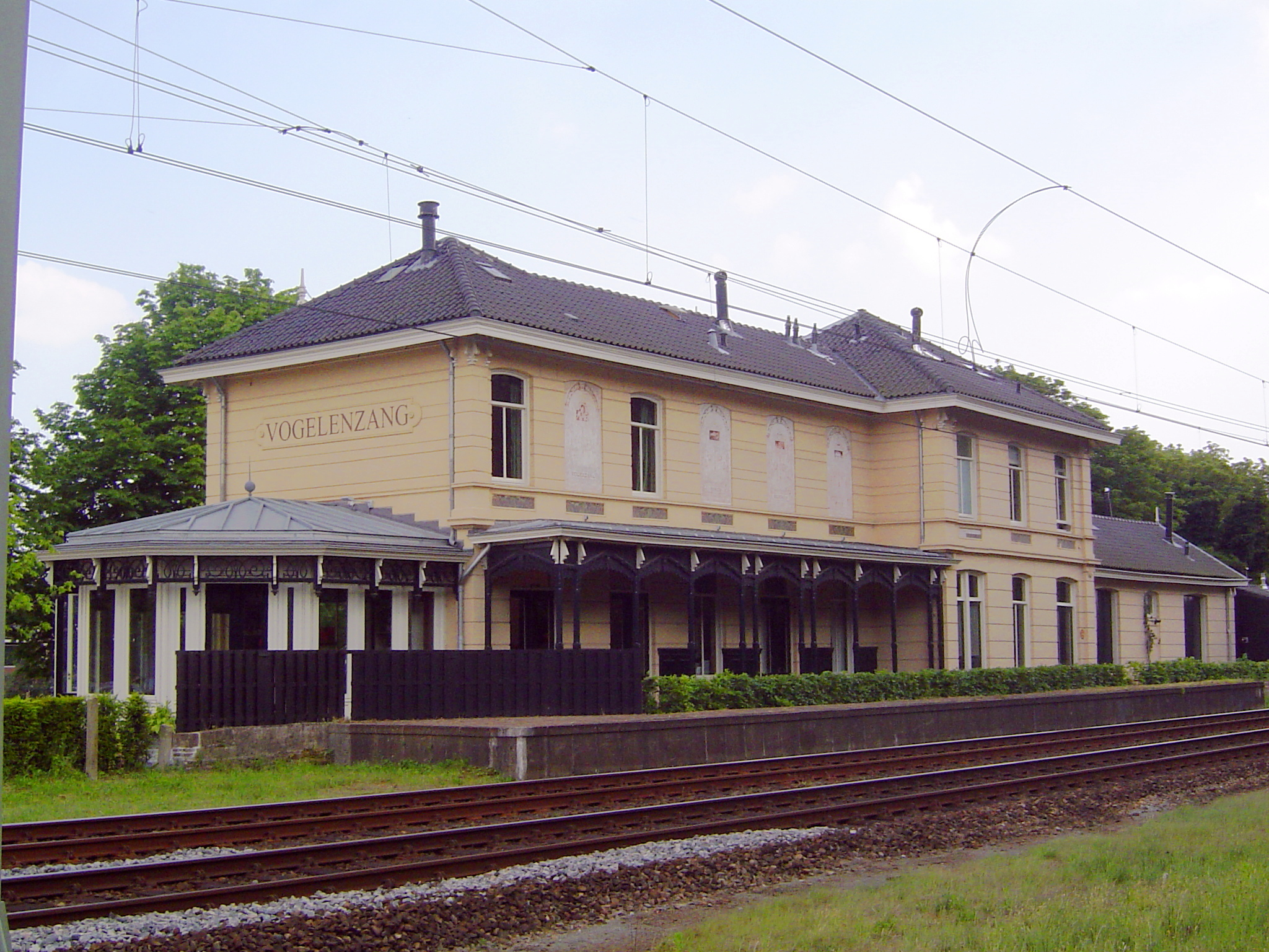 Railway station Vogelenzang, the Netherlands